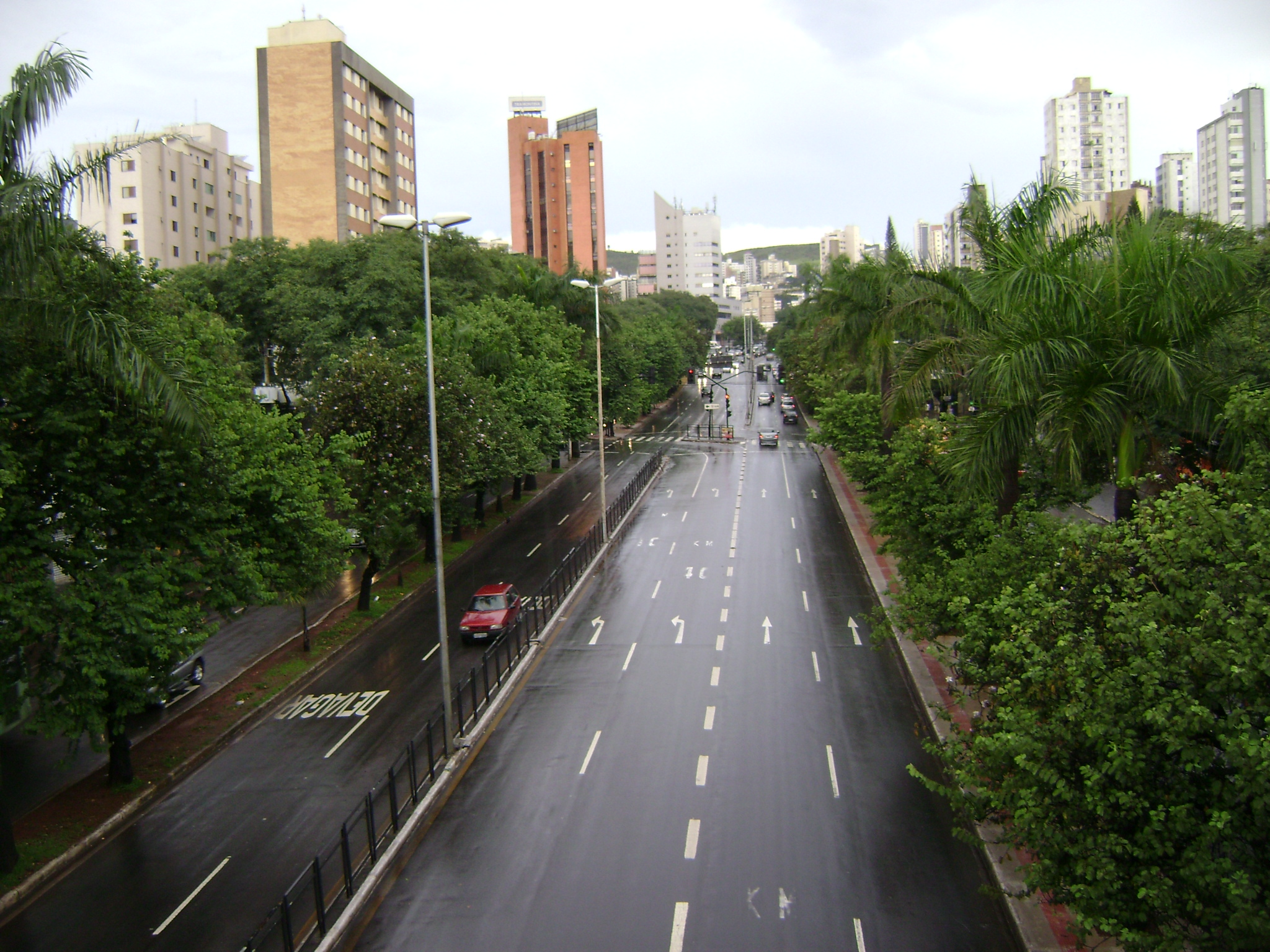 Avenida Nossa Senhora do Carmo